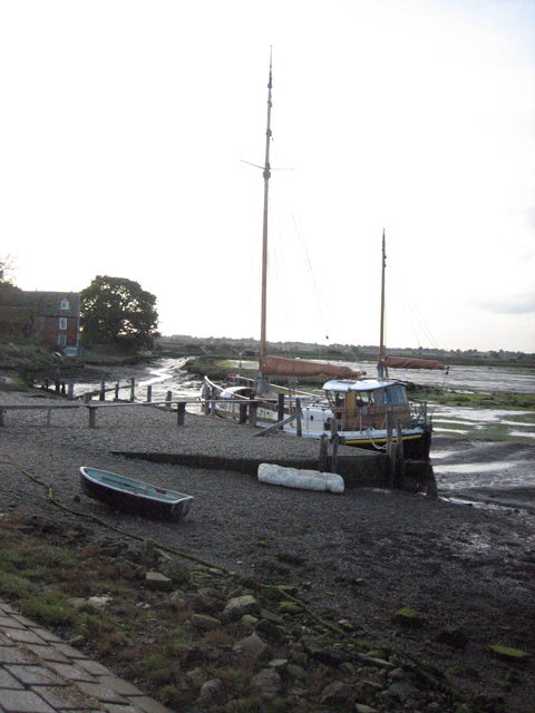 Small quay near the end of the creek "Stenoa" is also in 603497. This is the view looking inland up towards the end of Landermere Creek.